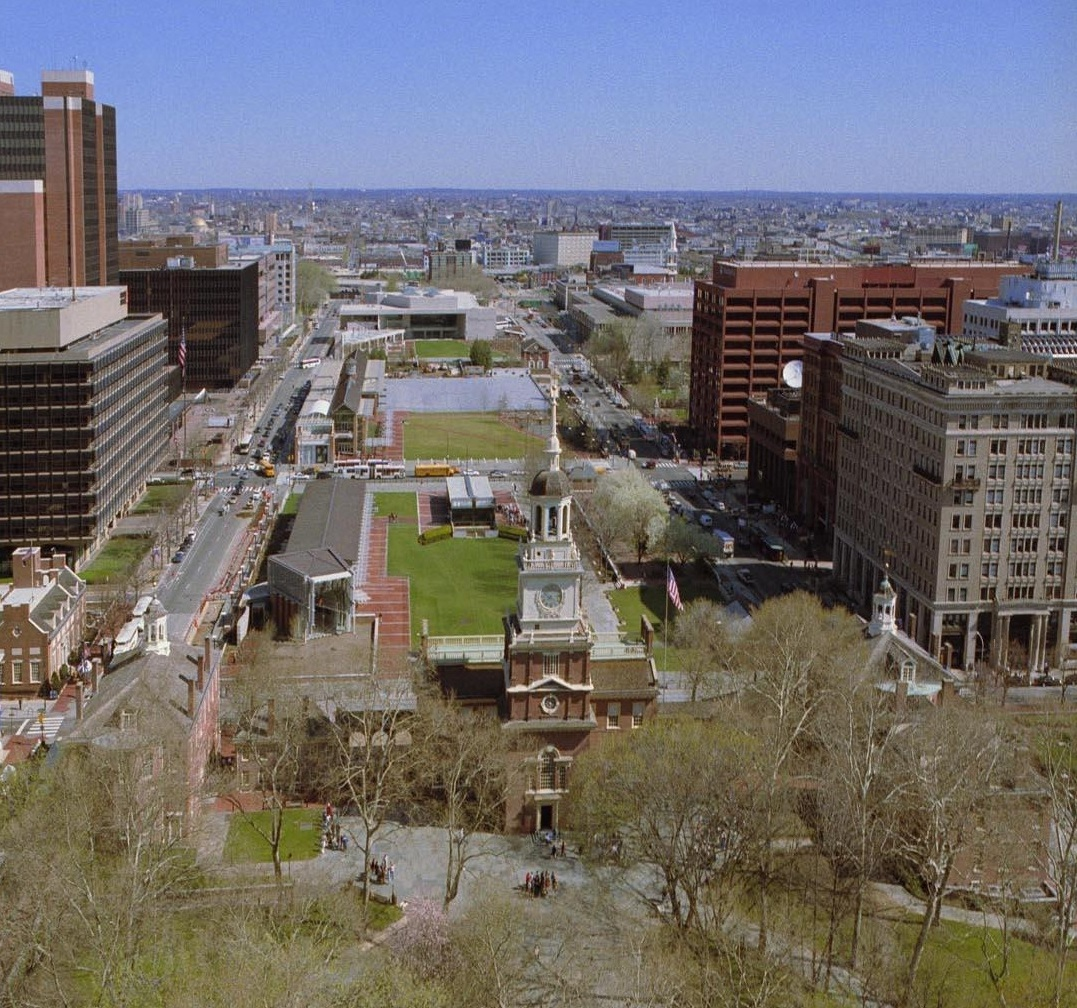 Overhead view of Independence Mall with Independence Square in the foreground in Independence National Historical Park, located in Philadelphia. Cropped more.